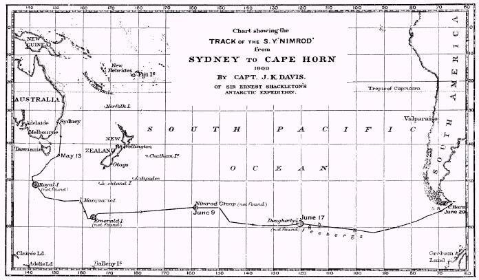 1909 track of the S. Y. Nimrod in search of phantom islands in the South Pacific Ocean.